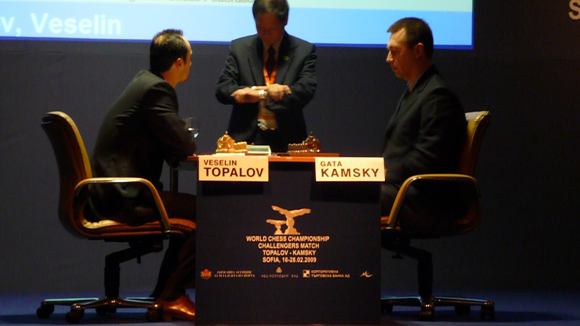 The referee is checking the time before Round 3 of World Chess Challengers Match Topalov - Kamsky 2009.